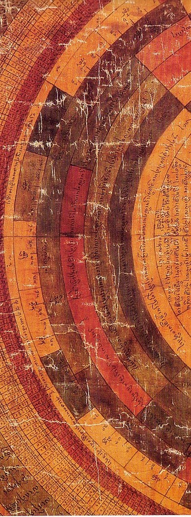 Part of a Tibetan astronomical Thanka, showing the arrangement of the zodiacal signs and the moonhouses. 17th century